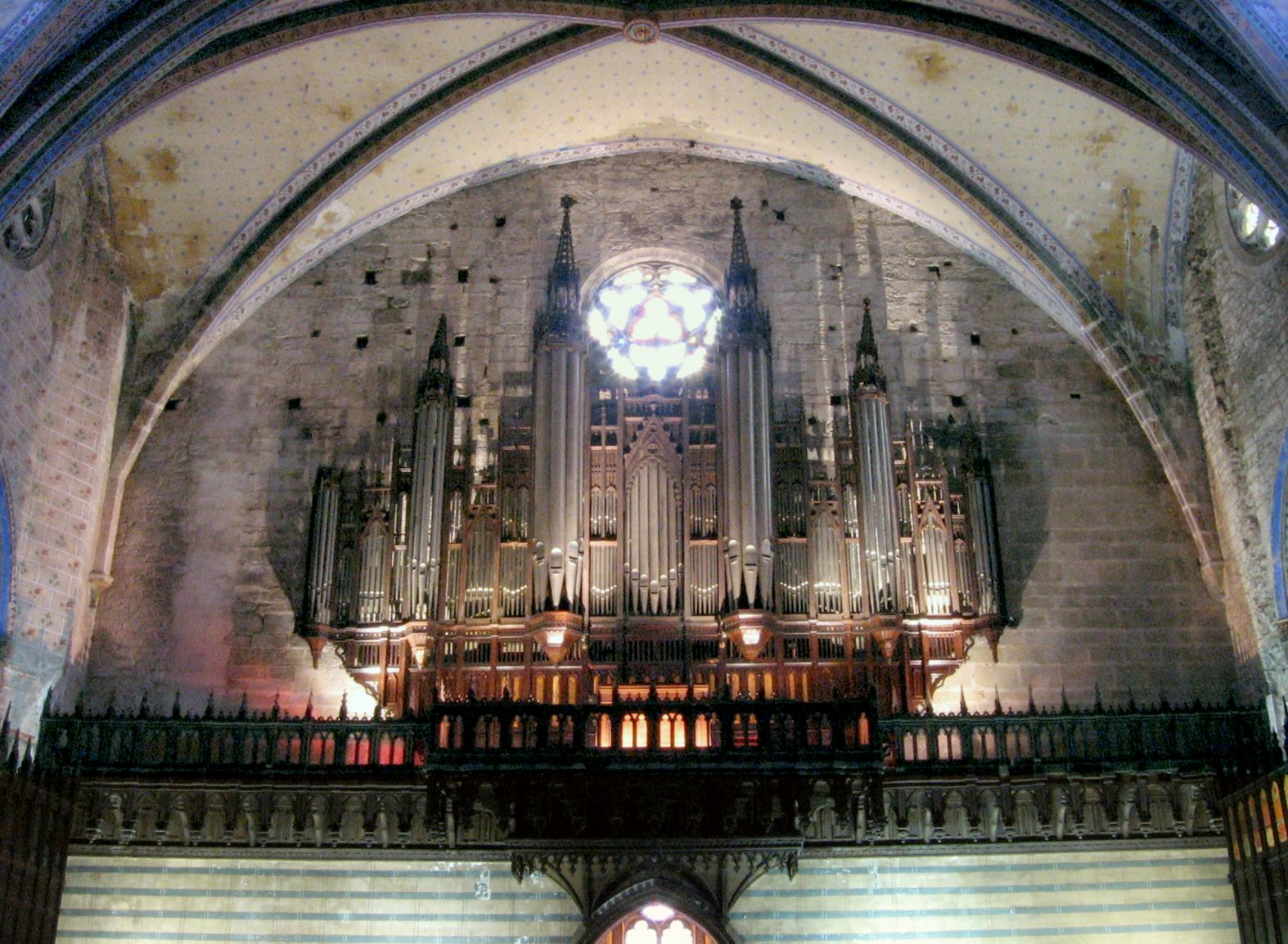 Organ of Mirepoix - France (Link, 1891)